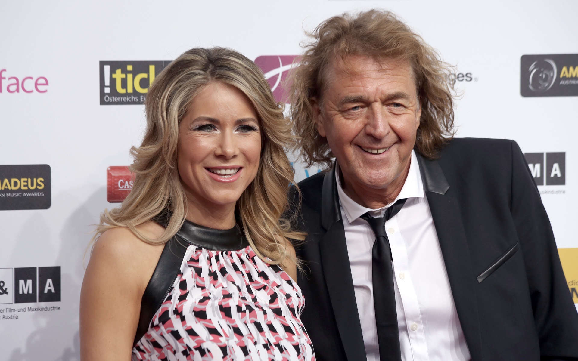 Simone and Charly Brunner at the Amadeus Austrian Music Award 2014 at Volkstheater in Vienna